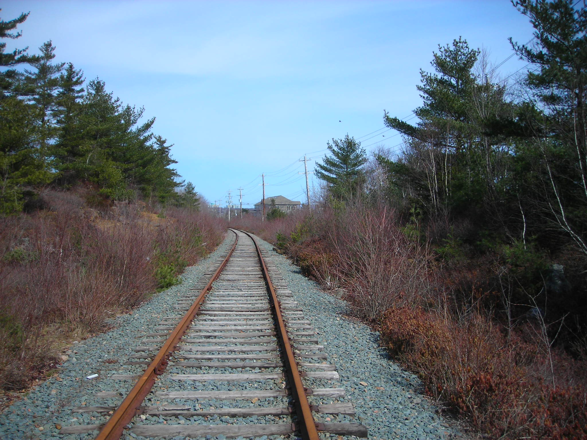 No more used rail tracks in west Halifax, Nova Scotia, Canada, east of the First Chain Lake. Tracks were used by the Halifax and Southwestern Railway. View towards Halifax peninsula.